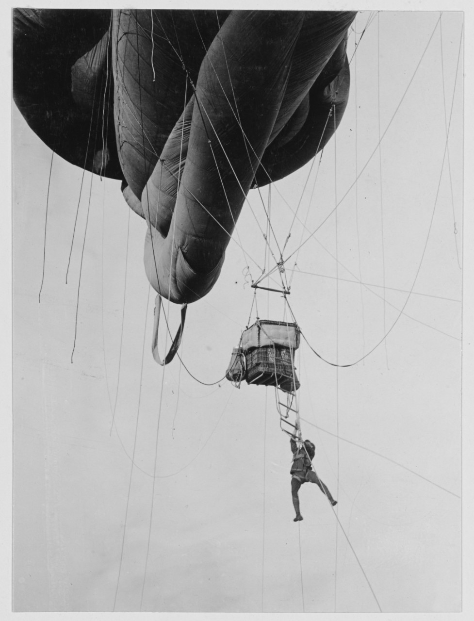 Title: Disembarking from a kite balloon Caption: Observer disembarking from a dirigible after an anti-submarine patrol, during World War I. Description: Catalog #: NH 44086 Credit: Naval History and Heritage Command Original Creator: Photo by Central News Photo Service. After this Year: 1914 Before this Year: 1918 Original Medium: BW Photo